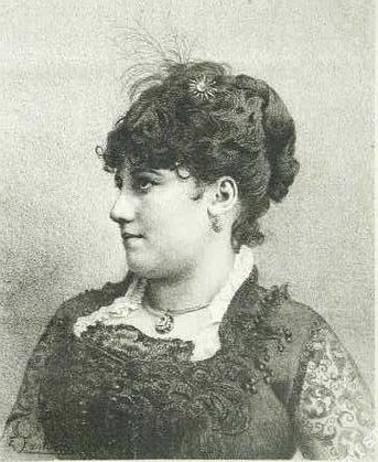 Portrait of the Italian opera singer Abigaille Bruschi-Chiatti which was originally published on the cover of Il Teatro Illustato